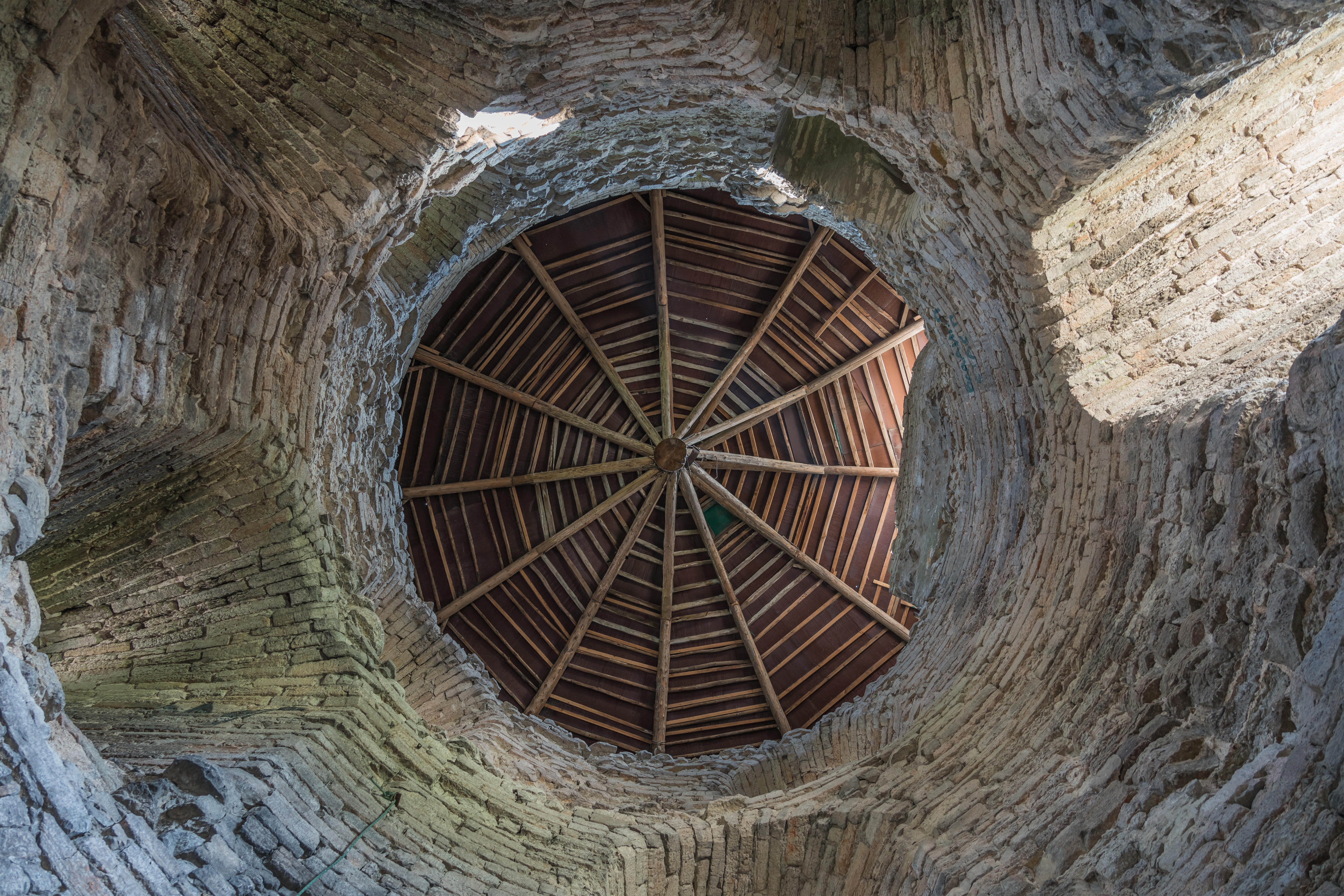 Interior of Gremyachaya Tower in Pskov, Russia